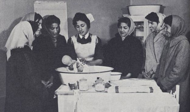 Infant ward in a Kabul hospital in the 1960s. Original caption: "Most hospitals give extensive post-natal care to young mothers."